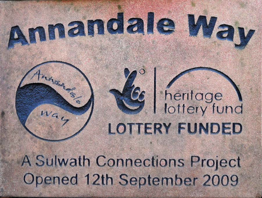 The Annandale Way is a 53-mile (85 km) hiking trail in Scotland. Plaque on the commemorative cairn at the start of the Annandale way - north end. Scothill own work 11th November 2011